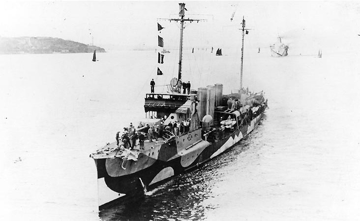 USS O'Brien (Destroyer # 51) bringing in a convoy, 1918. Photographed from USS Pocahontas (ID-3044). Note the "Dazzle" type camouflage worn by this destroyer, and by the transport following her.